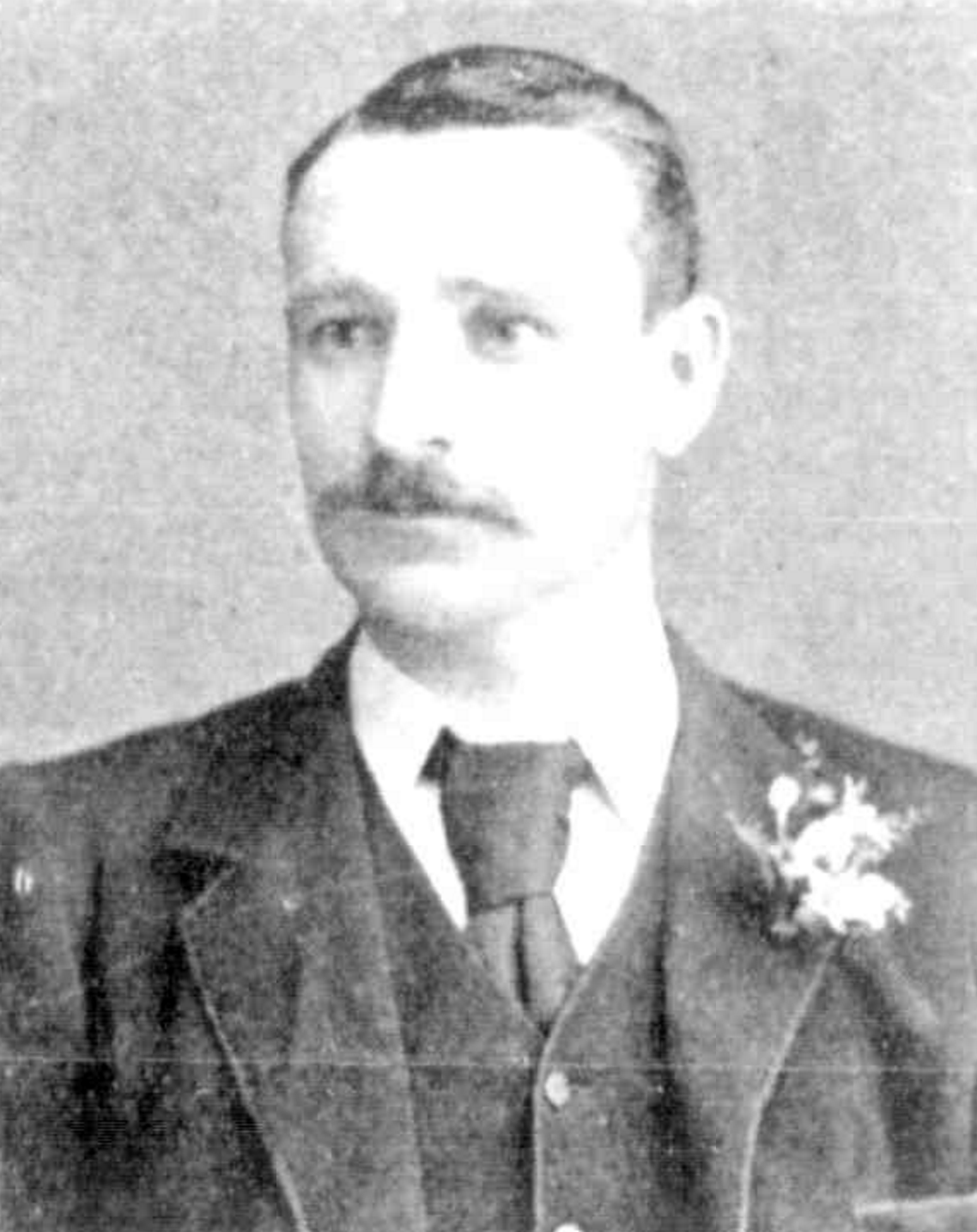 Portrait of Jack Monohan published in Melbourne Punch with portraits of several dozen other Victorian Football League players.